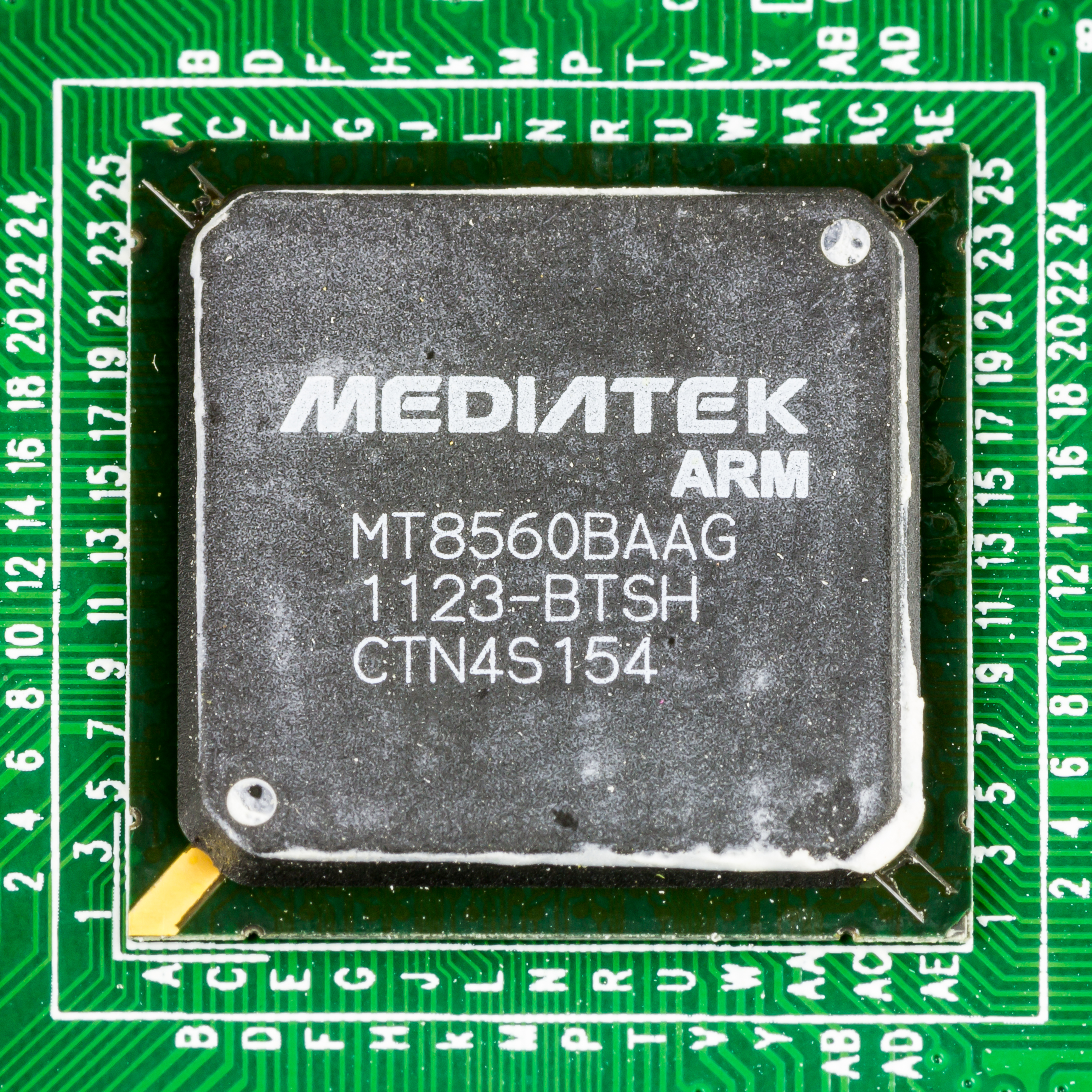 Philips BDP3280/12 - MediaTek MT8560BAAG